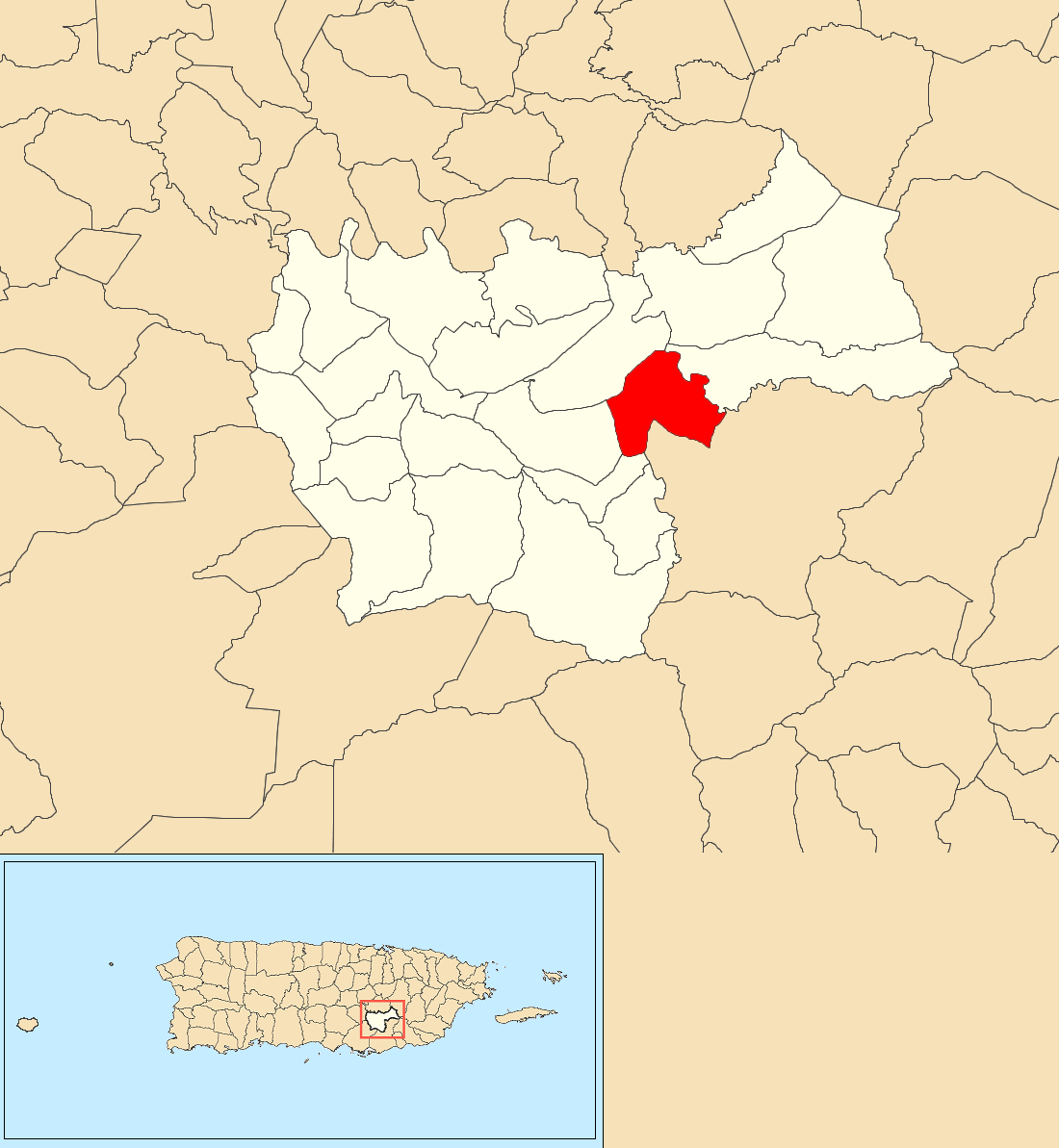 Cedro, Cayey, Puerto Rico locator map